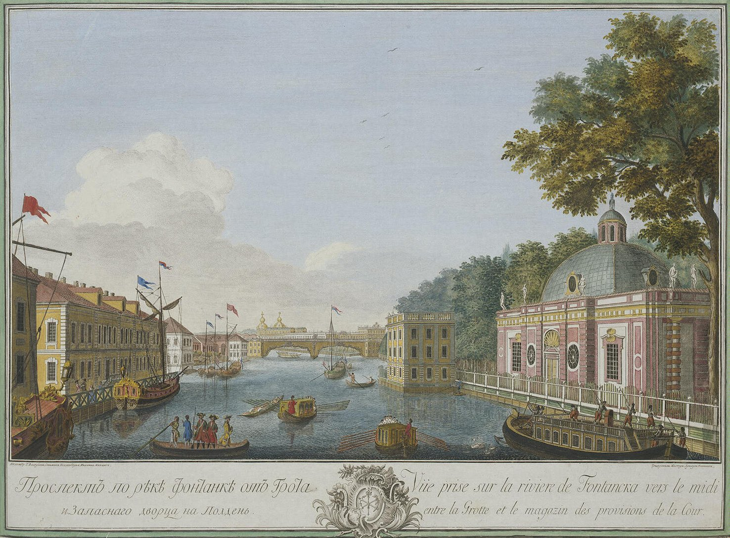 «View of the Fontanka River from the Grotto». Line engraving and watercolour, 51.5x69.5 cm. State Hermitage.